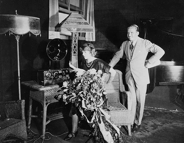 Douglas Fairbanks and Mary Pickford at CKAC studio (microphone in lampshade)